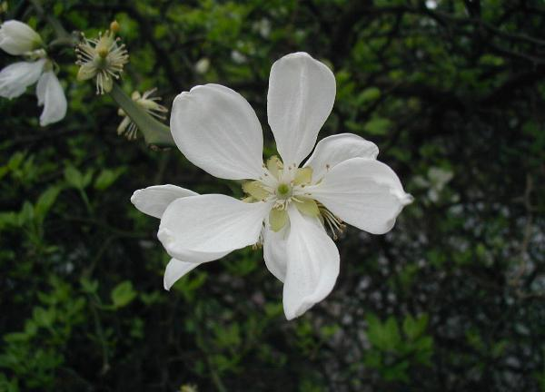 Poncirus trifoliata: Close-up on the flower.